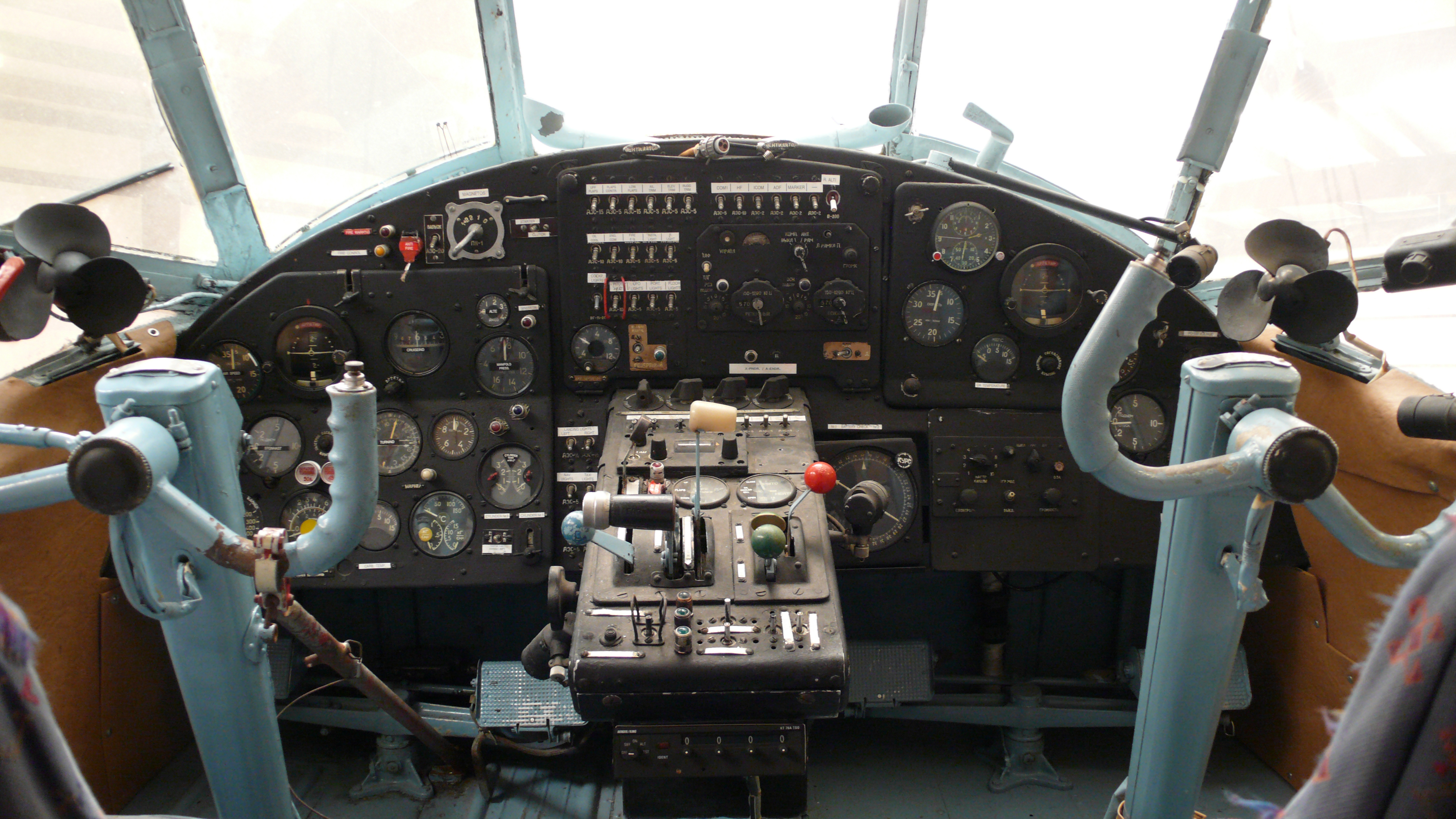 Antonov-2 cockpit